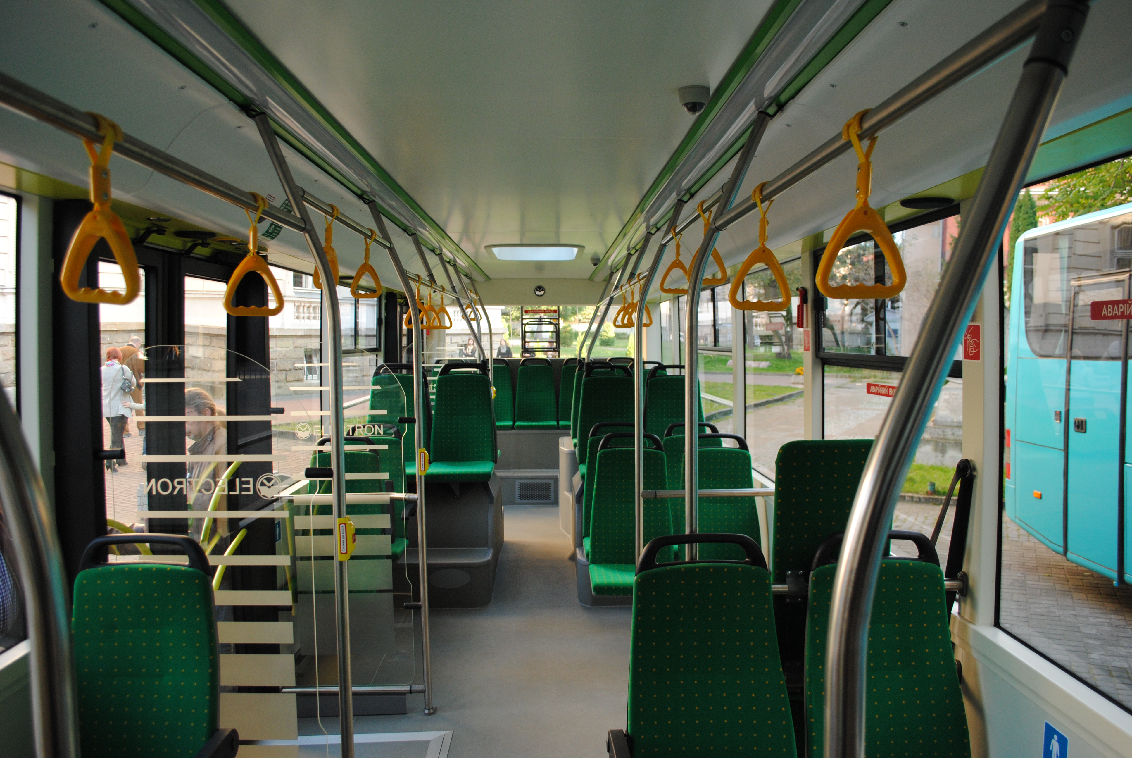 Electron T19101 trolleybus on Lvivsky Tovarovyrobnyk Expo.